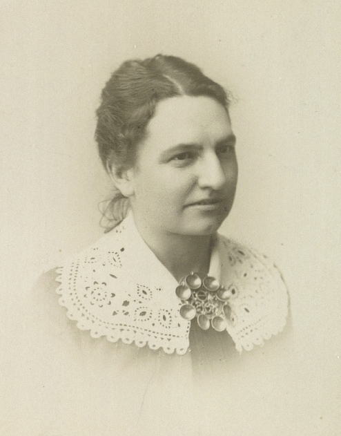 A crop of File:Louise Ravn-Hansen.jpg. I decided it best to leave the border in the original one, as it has artistic/historical merit itself, however this is a more usable version for an article on Ravn-Hansen.